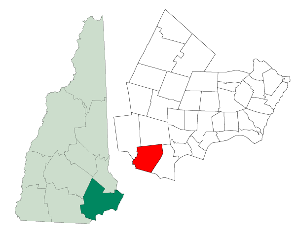 Map of a municipality in Rockingham County, New Hampshire